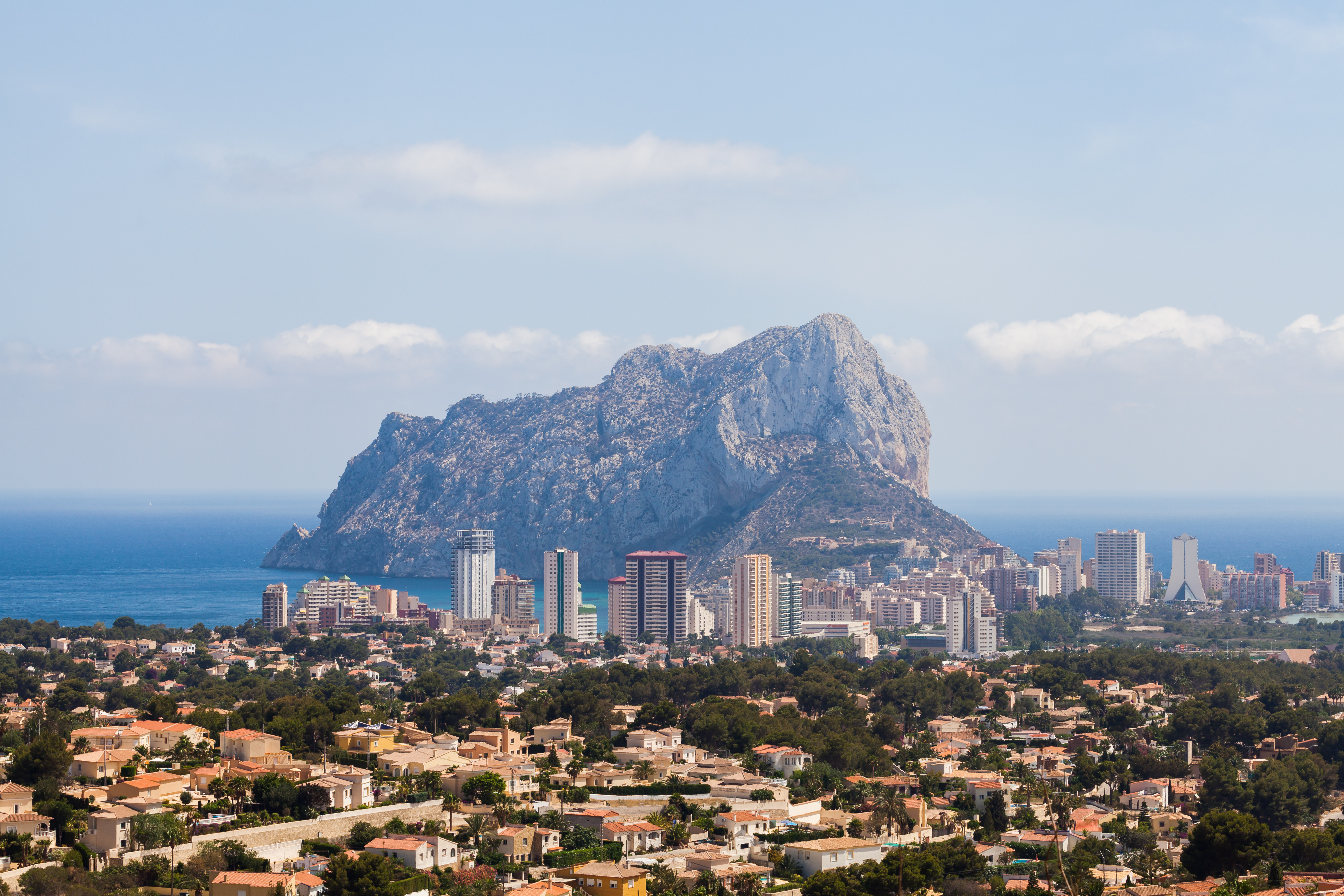 Rock of Ifach, Calpe, Spain